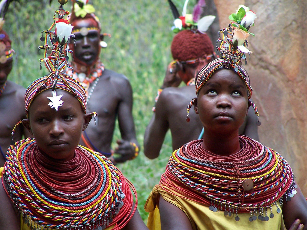 They didn't seem very excited to be performing for us.